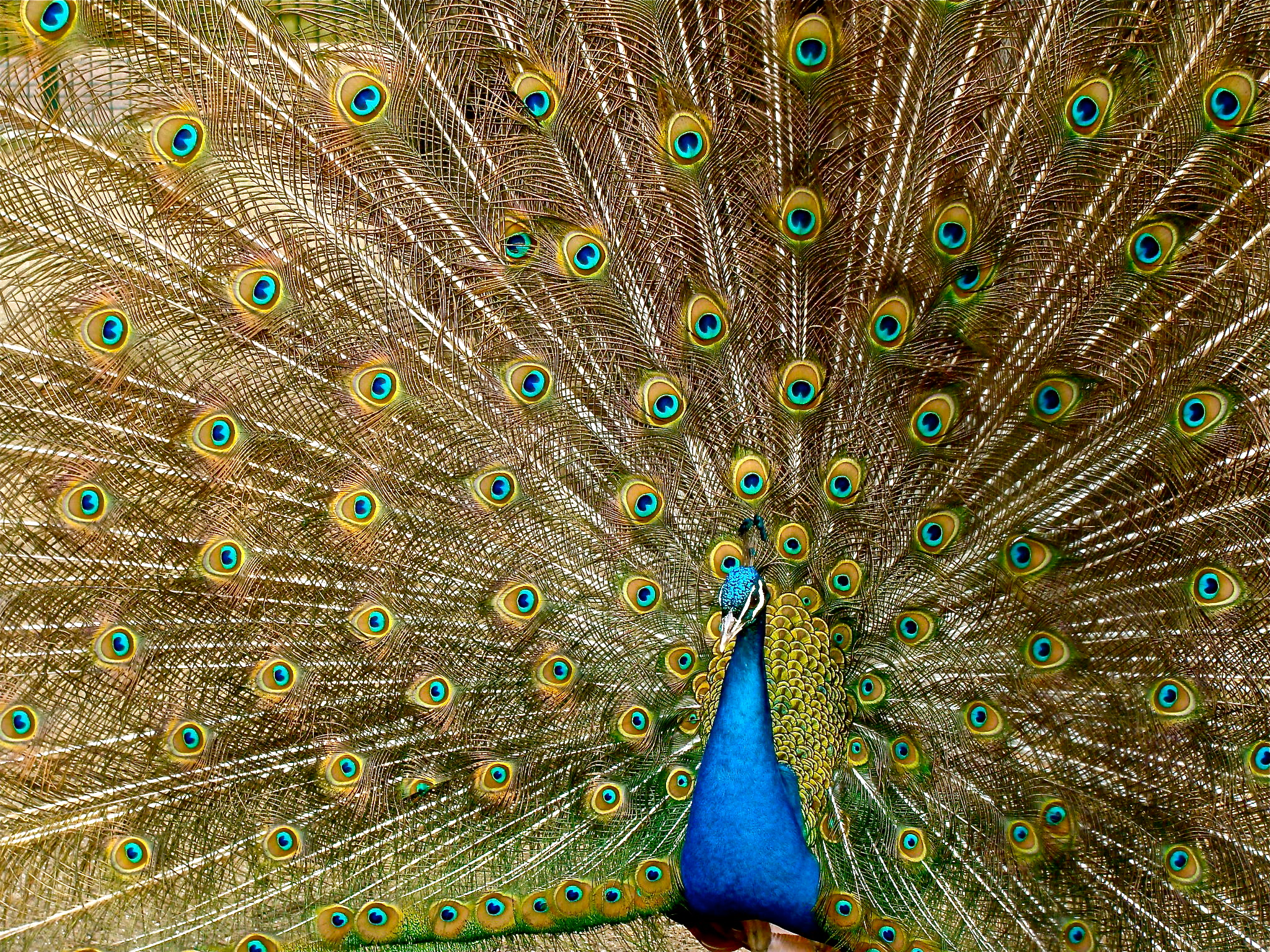 A Peafowl flaring his feathers.